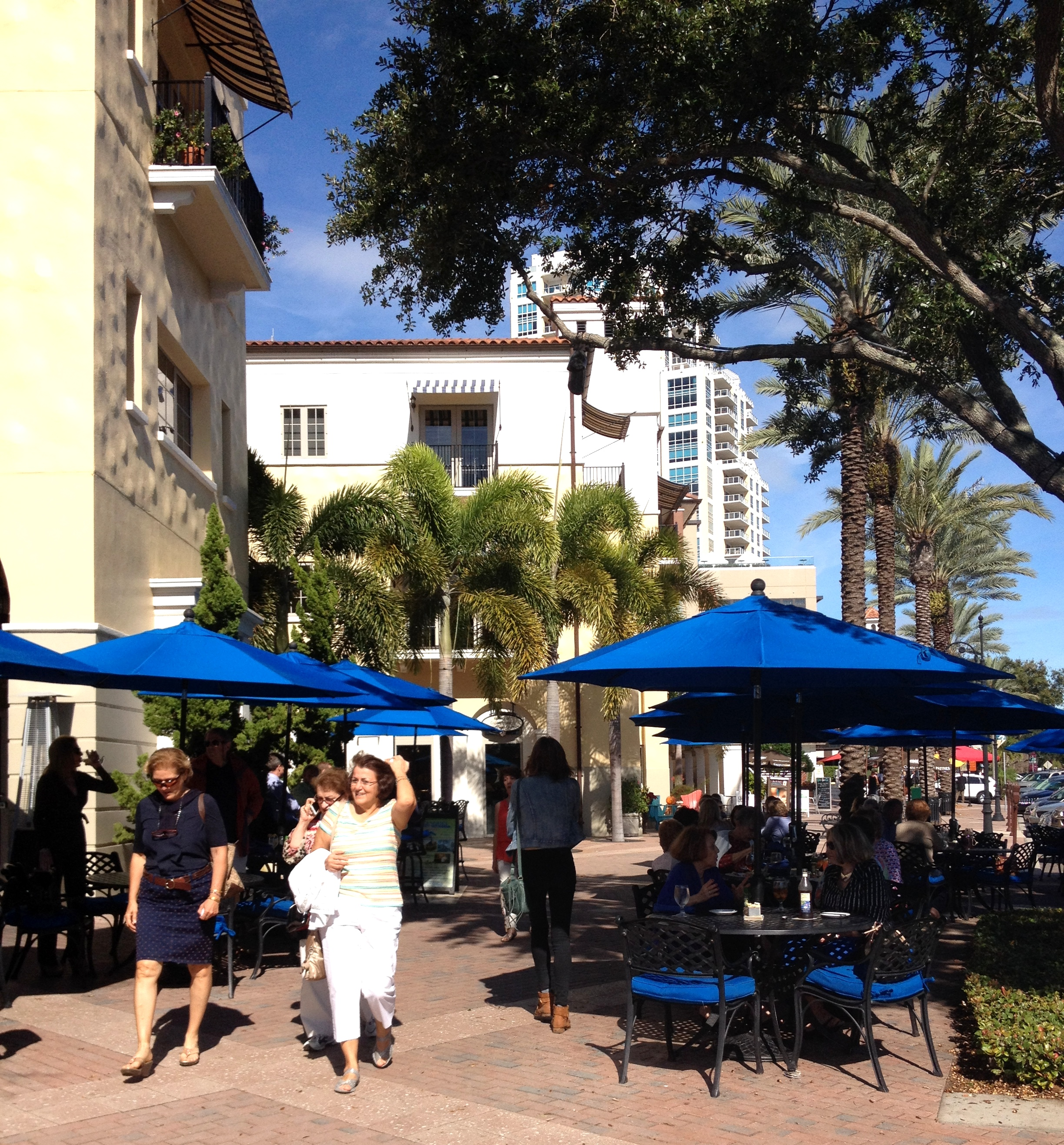 st pete downtown